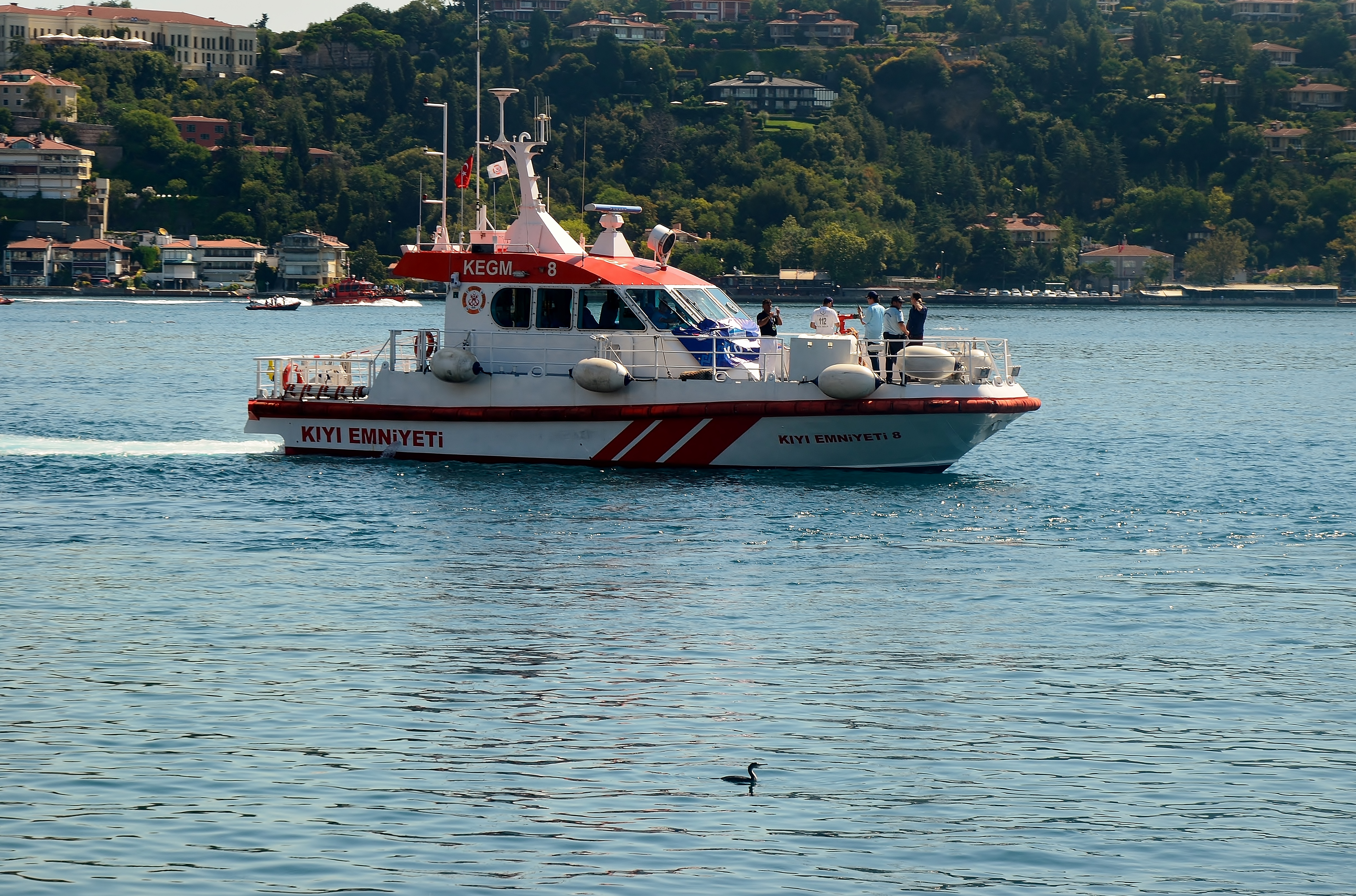 KEGM8 of the Coastal Safety of Turkey in Bosphorus.